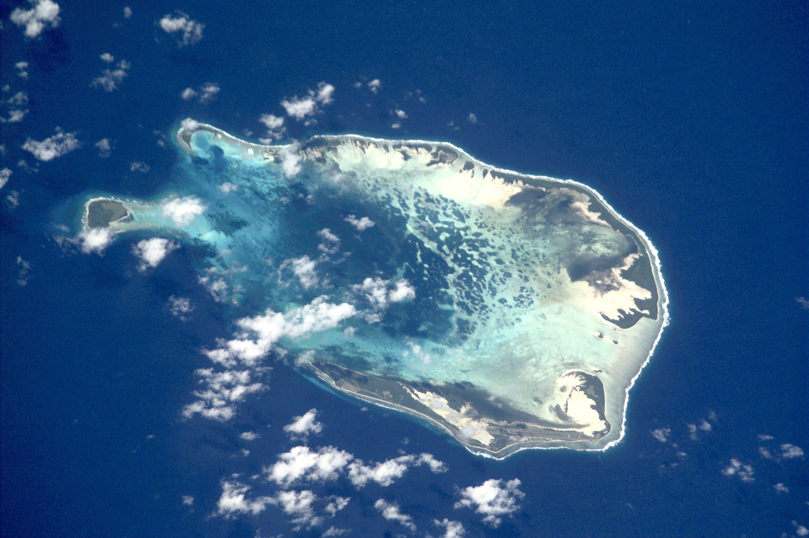 NASA astronaut image of Cocos (Keeling) Islands (Territory of Australia) in the Indian Ocean